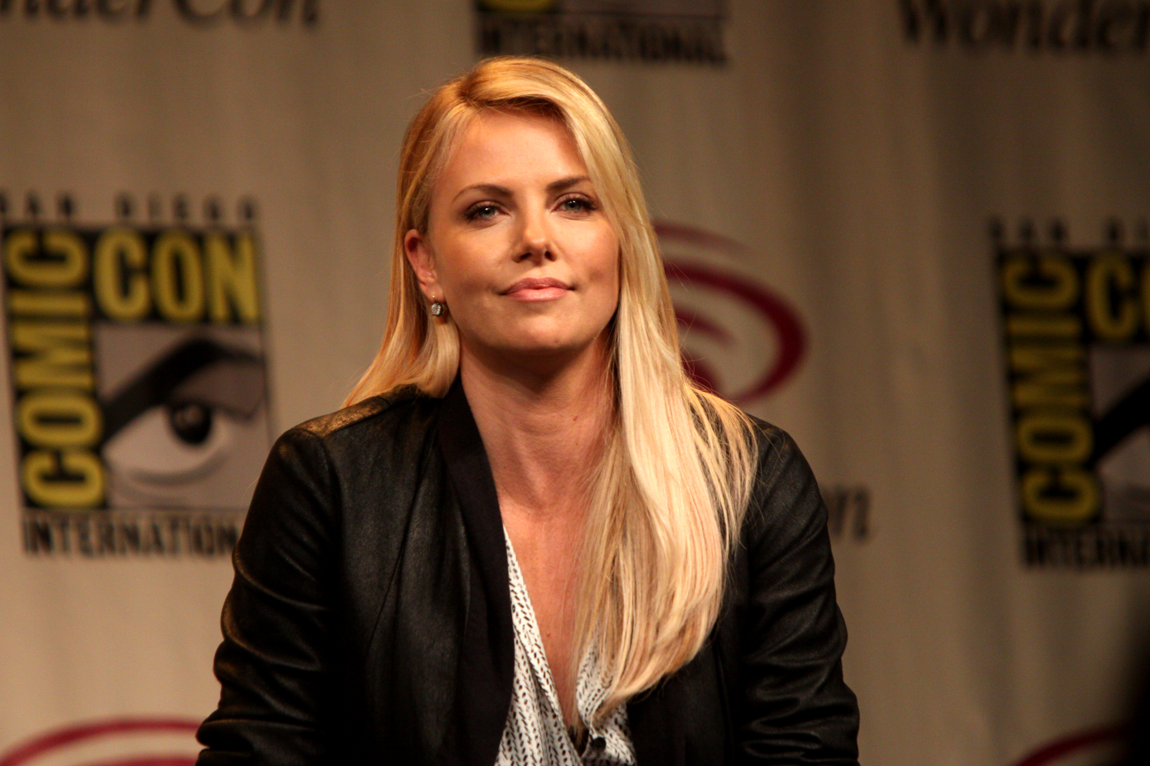 Charlize Theron speaking at the 2012 WonderCon in Anaheim, California.